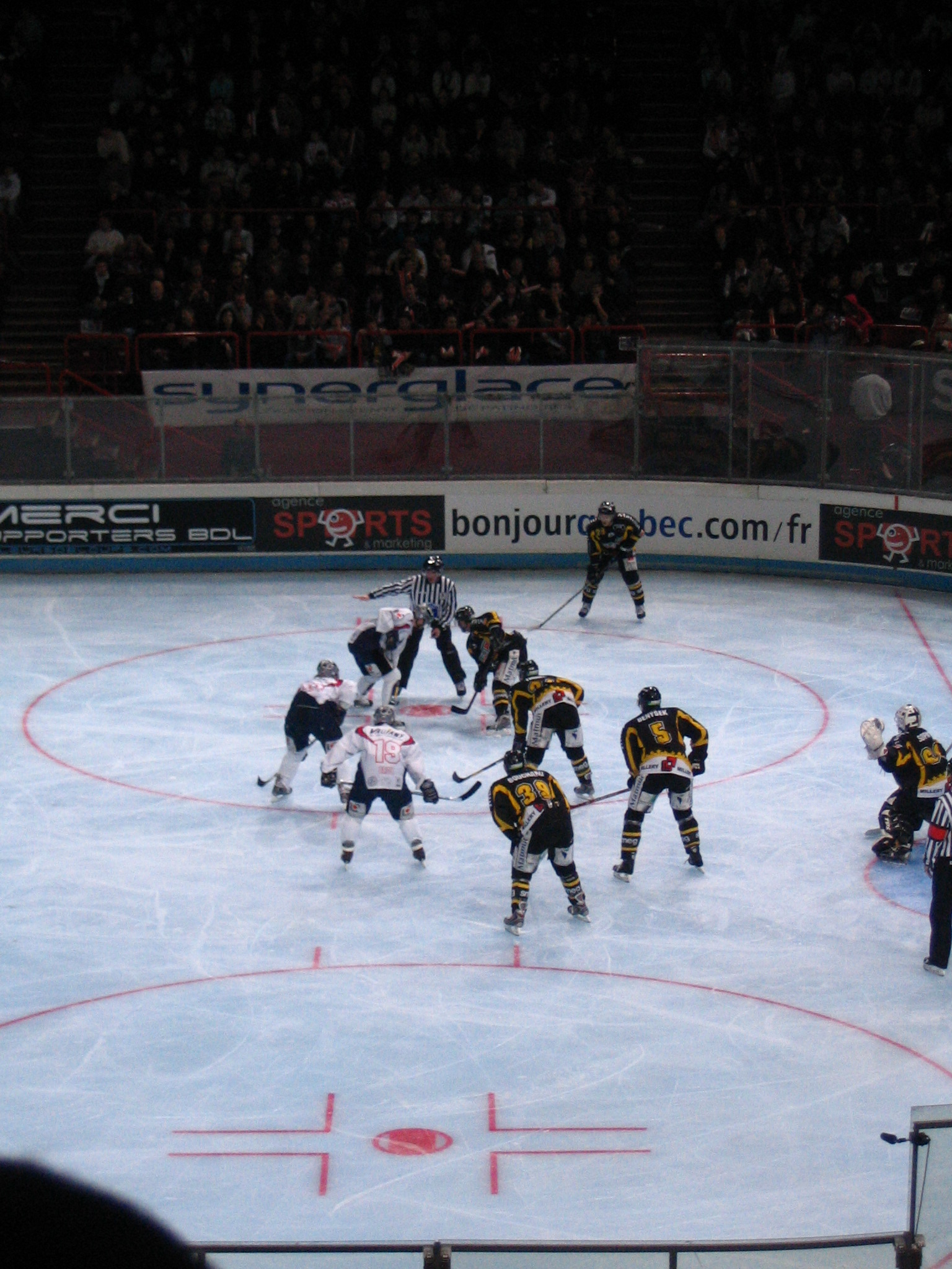 Ice Hockey French Cup Final 2007-2008 at Paris-Bercy